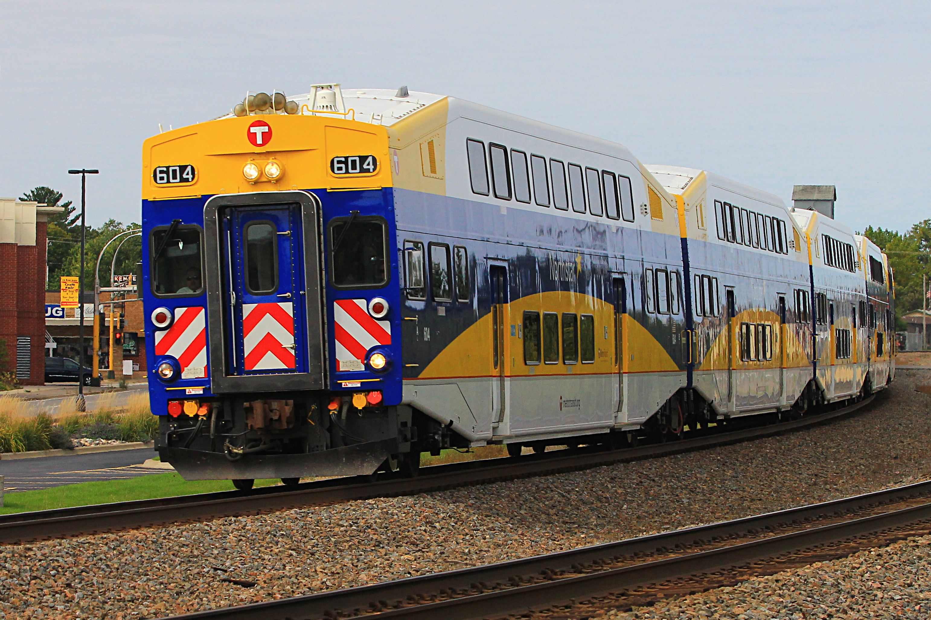 Northstar Line cab car 604 leading a train south through Elk River, Minnesota. These are Bombardier BiLevel Coaches.